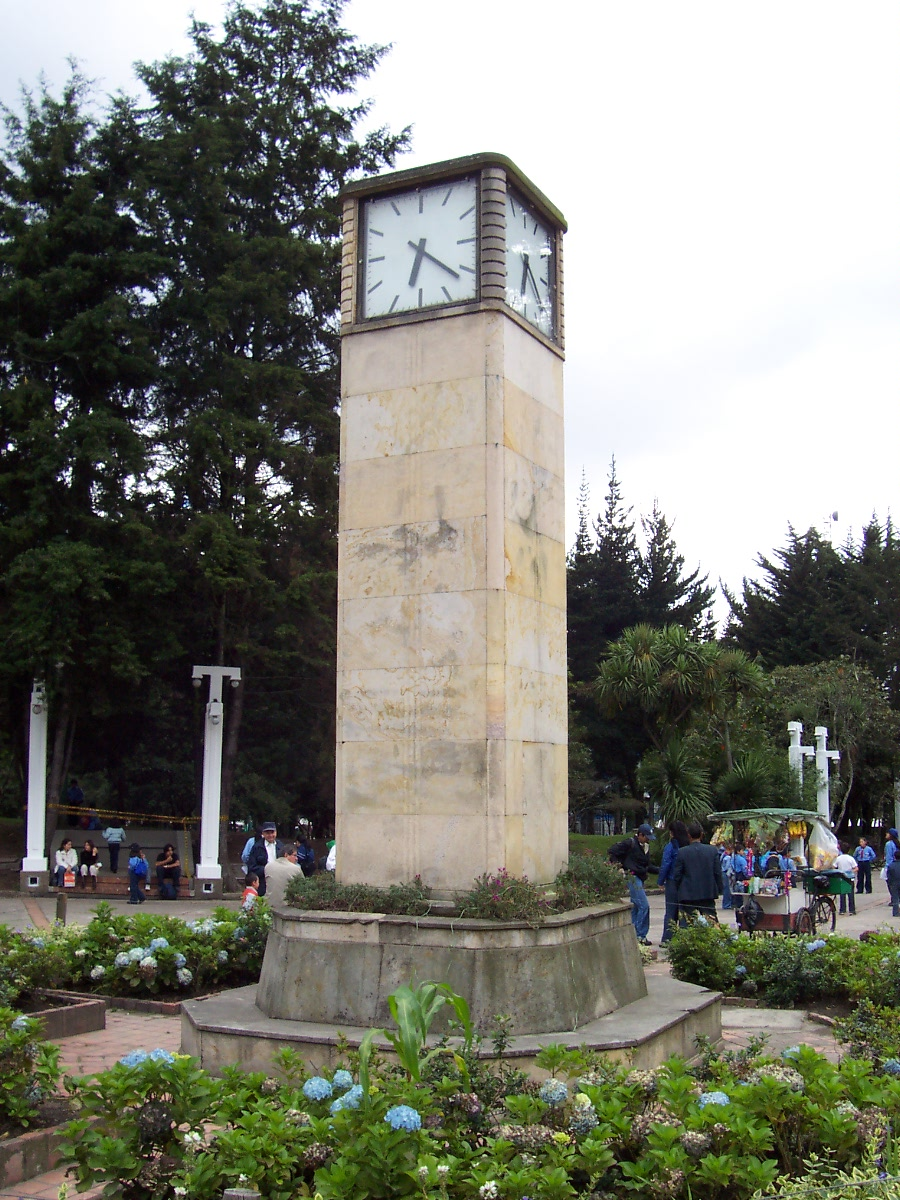 Nacional "Enrique Olaya Herrera" Park